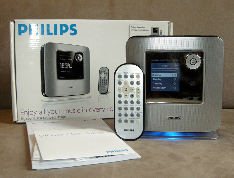 Philips audio alarm clock.